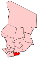 Map of Chad showing Mandoul region.